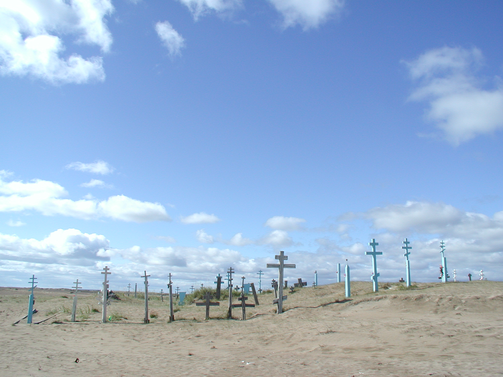 the cemetery of Kuzomen' village